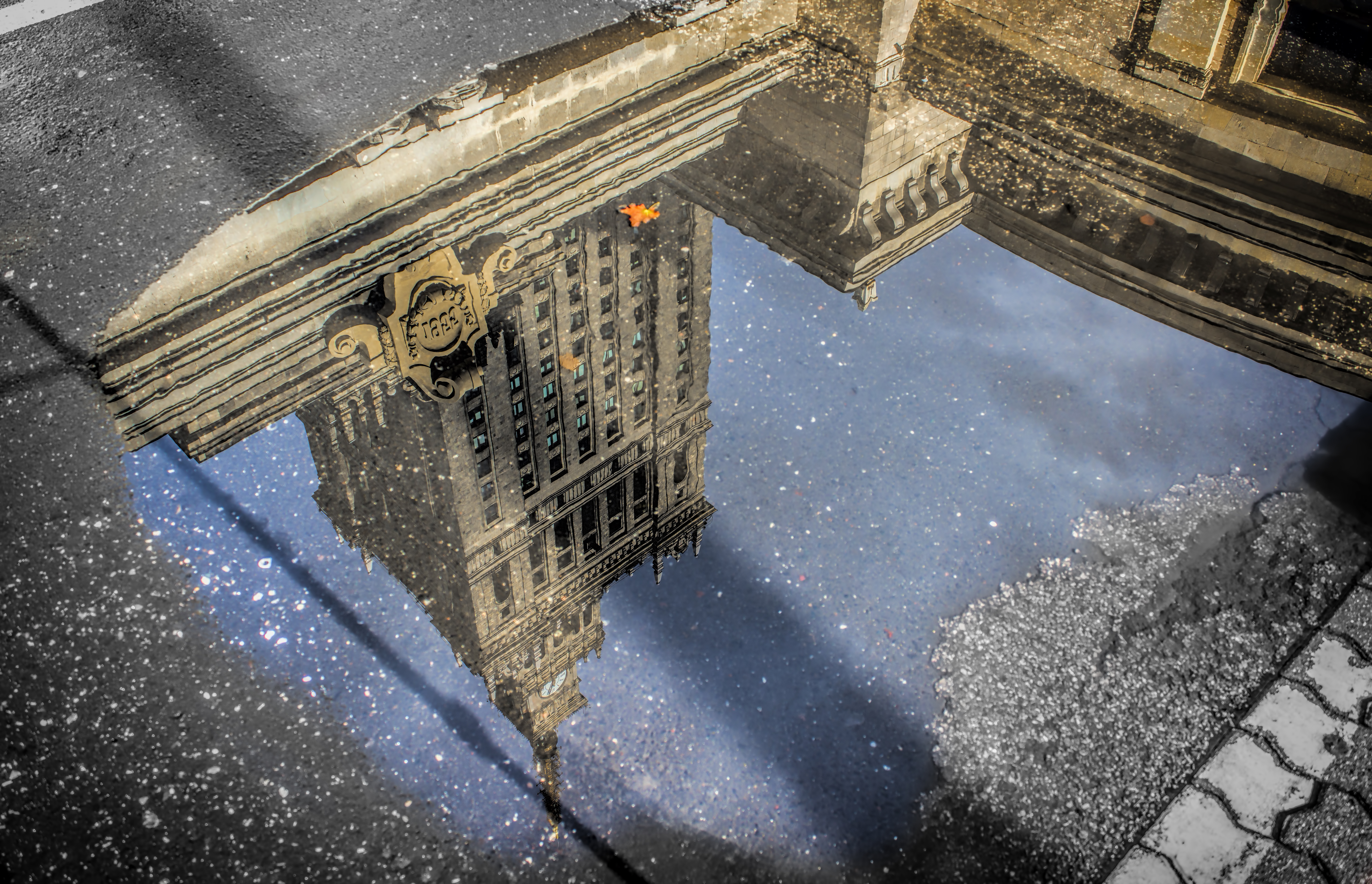 Palace of Culture and Science